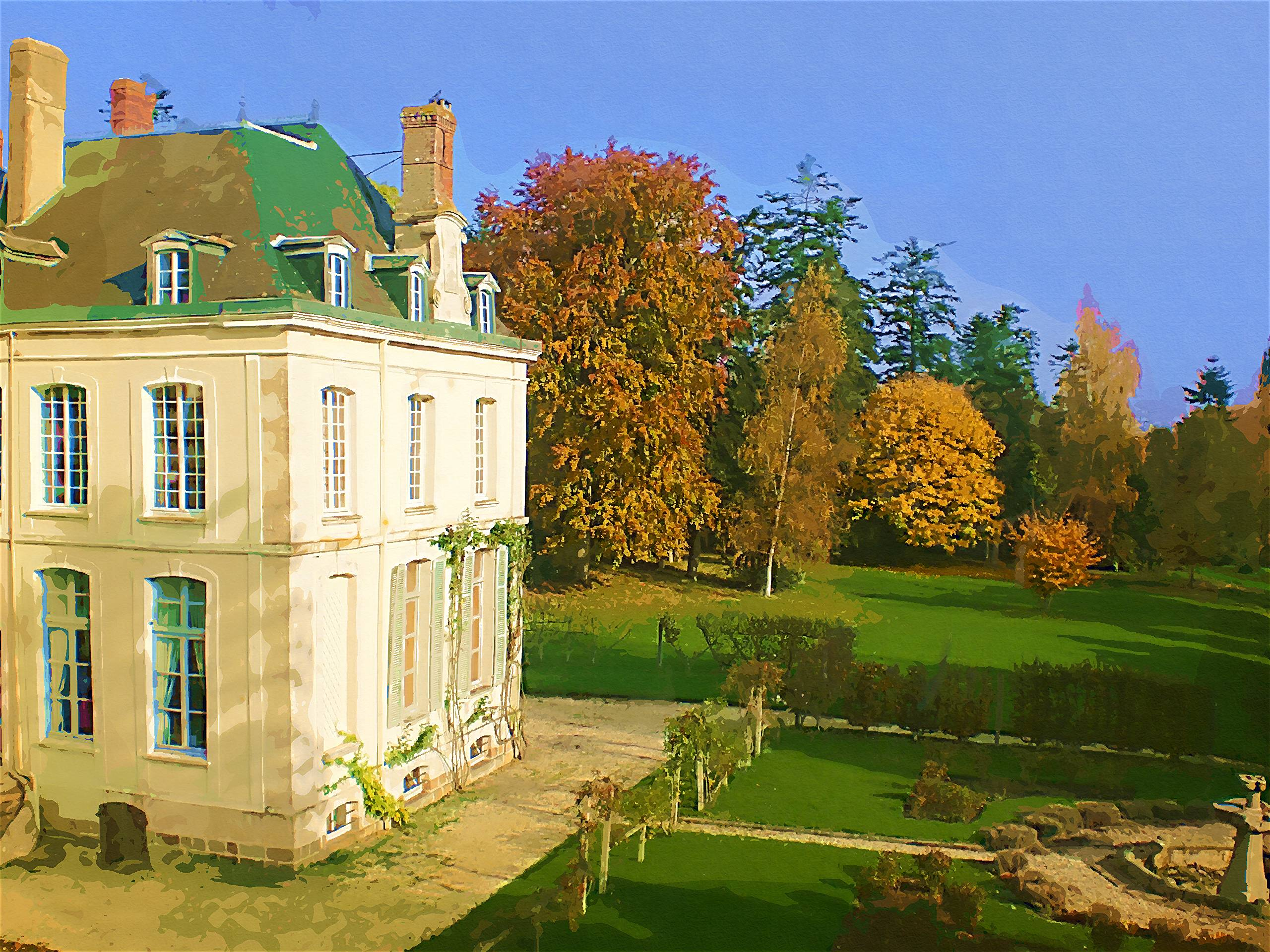 Chateau de la Motte in the fall